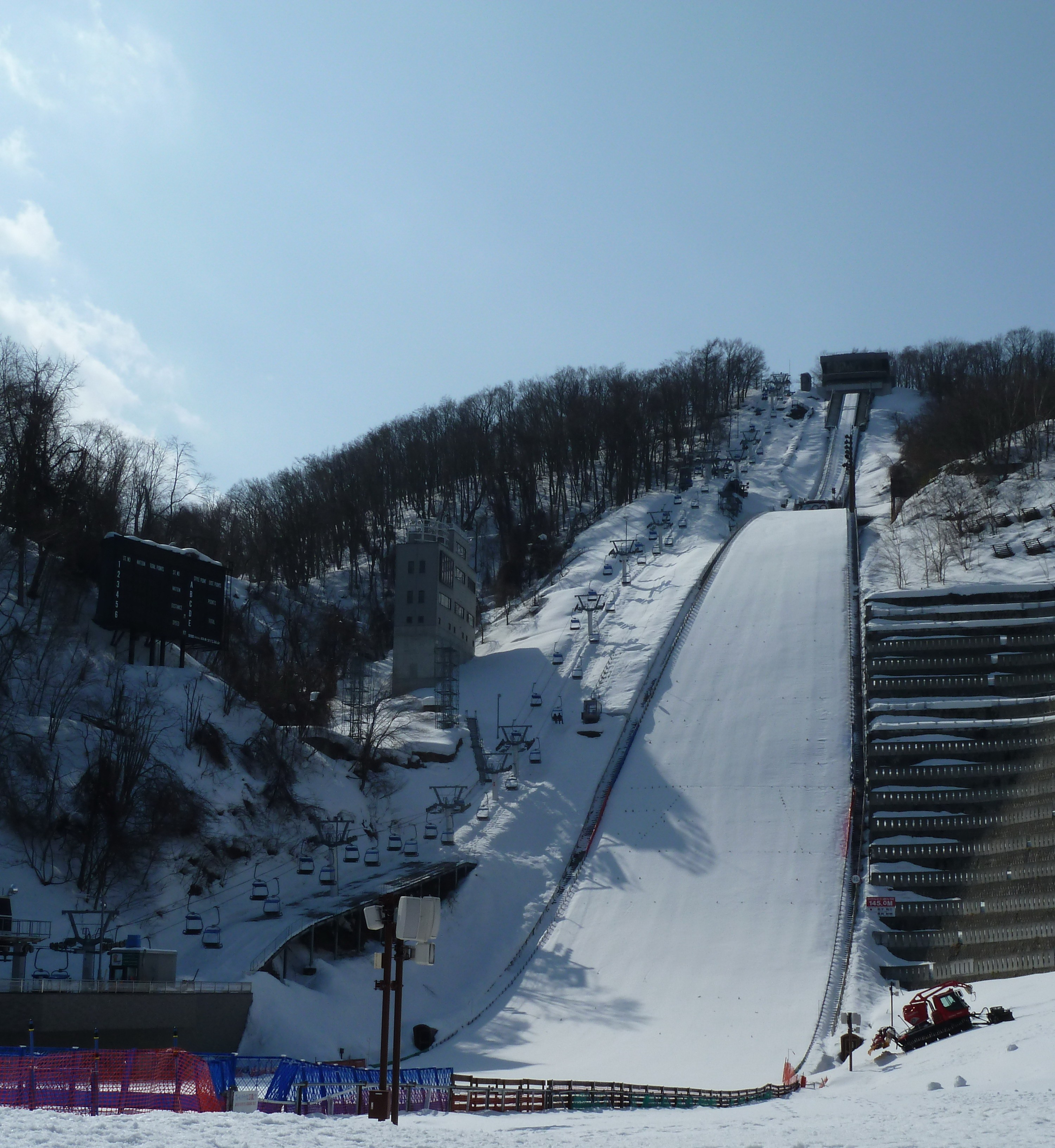 大倉山スキージャンプ台